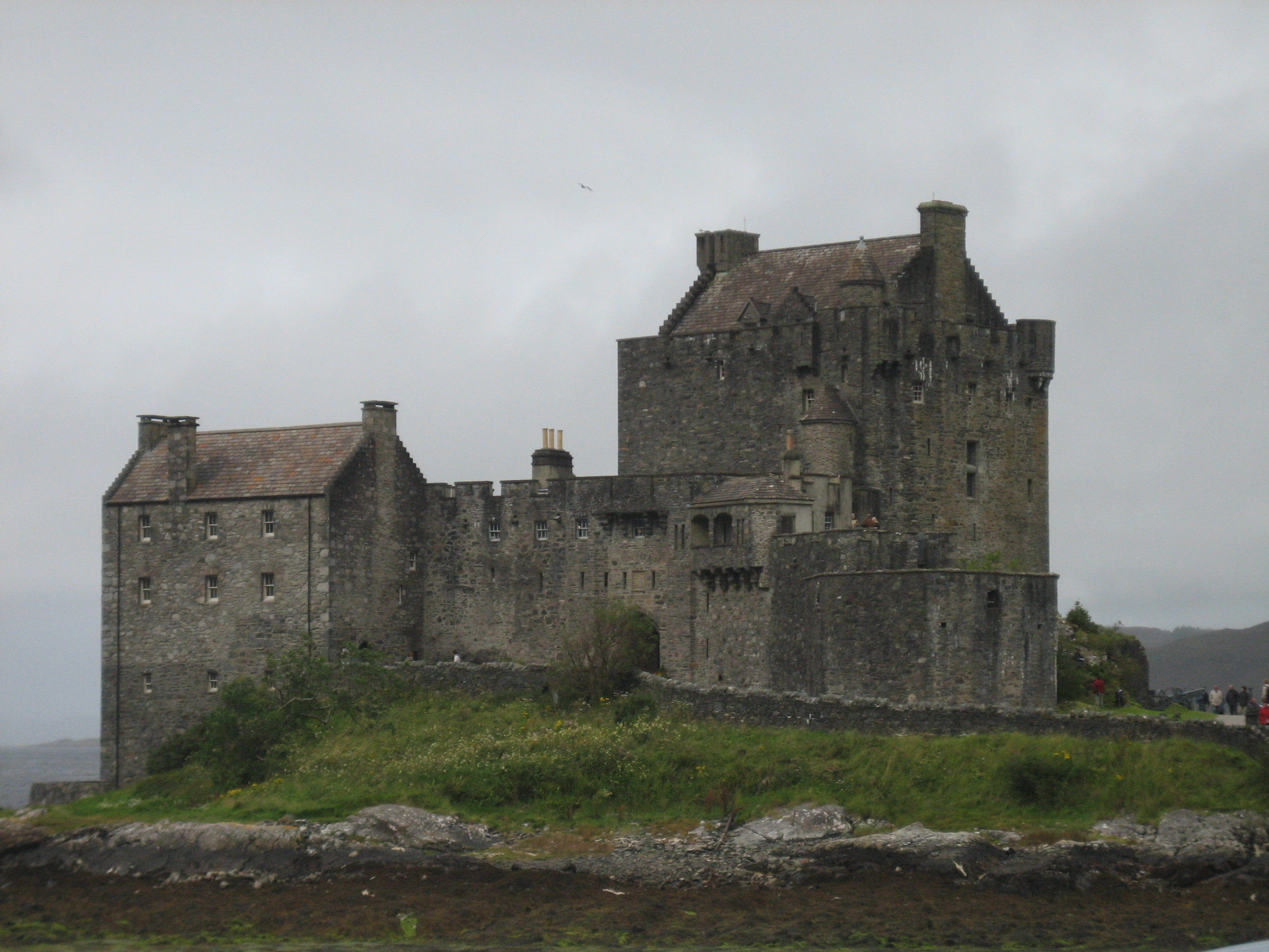 Eilean Donan Castle at Loch Duich in Scotland